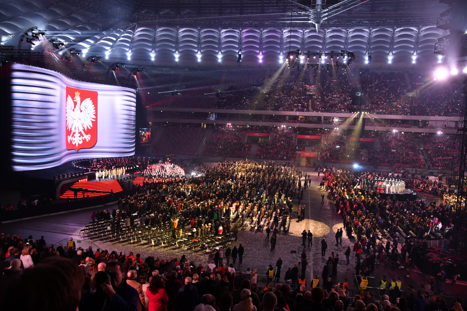 Concert for Independence. November 10, 2018. Warsaw. Poland.